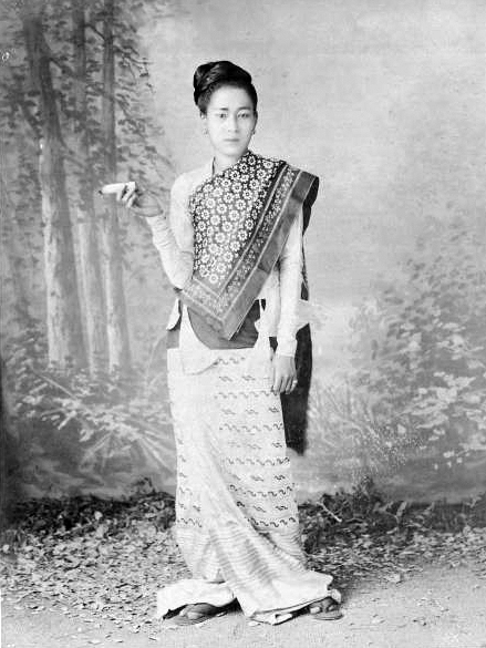 A Kuntho [?] lady